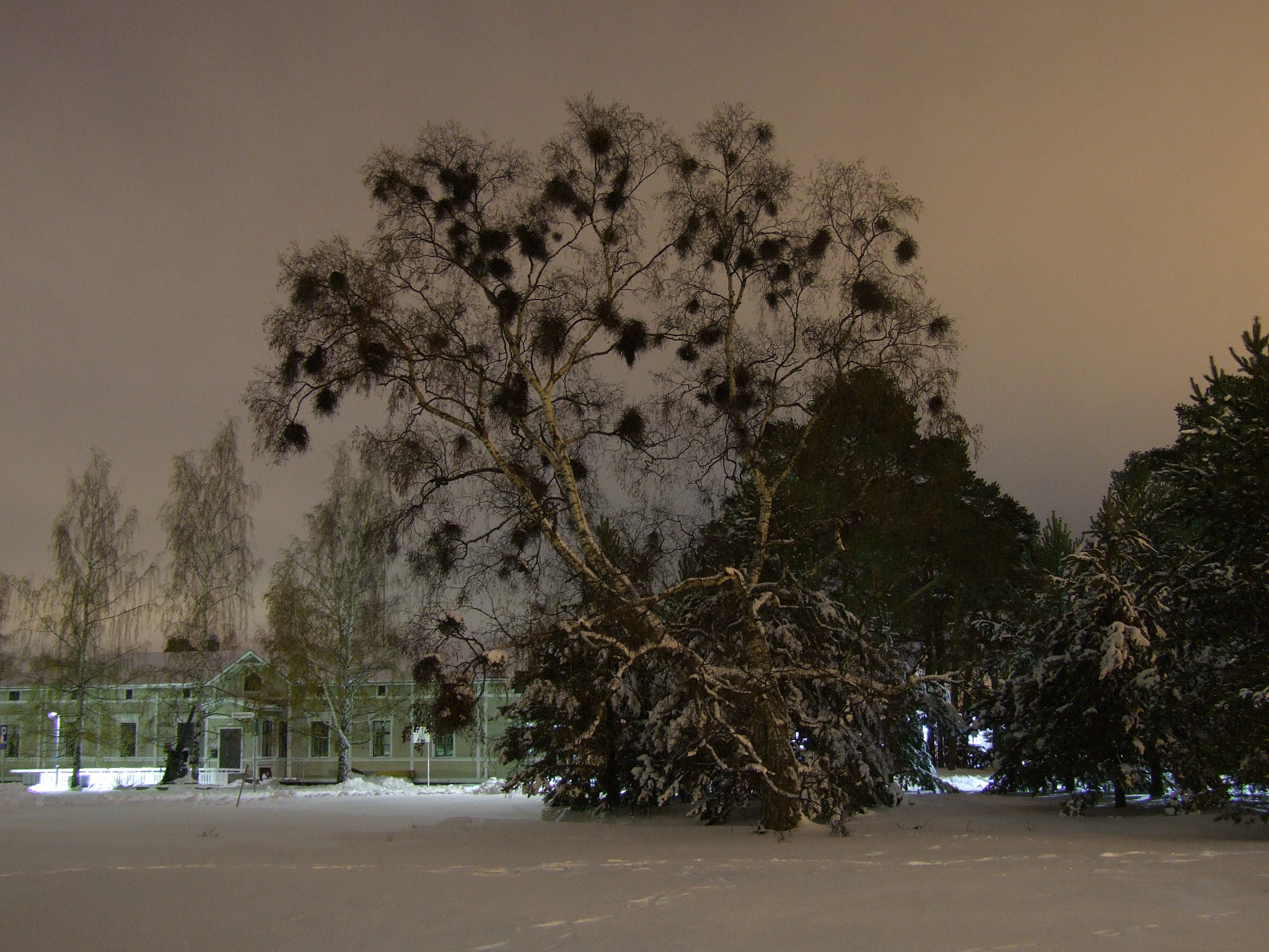 Witch's broom on an old birch in Intiö neighbourhood (former military base) in Oulu, Finland.